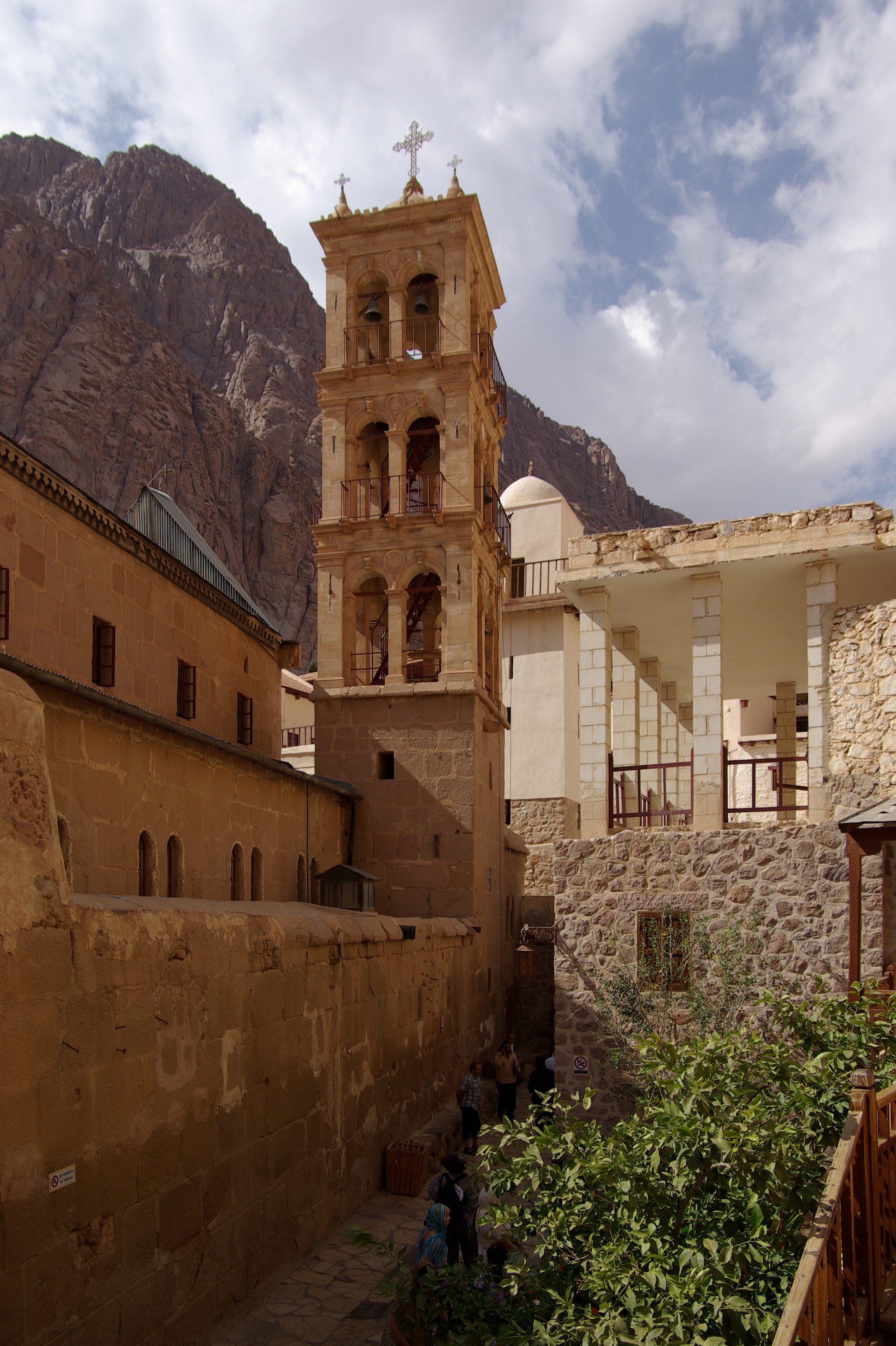 Church tower of Saint Catherine's Monastery, Sinai, Egypt